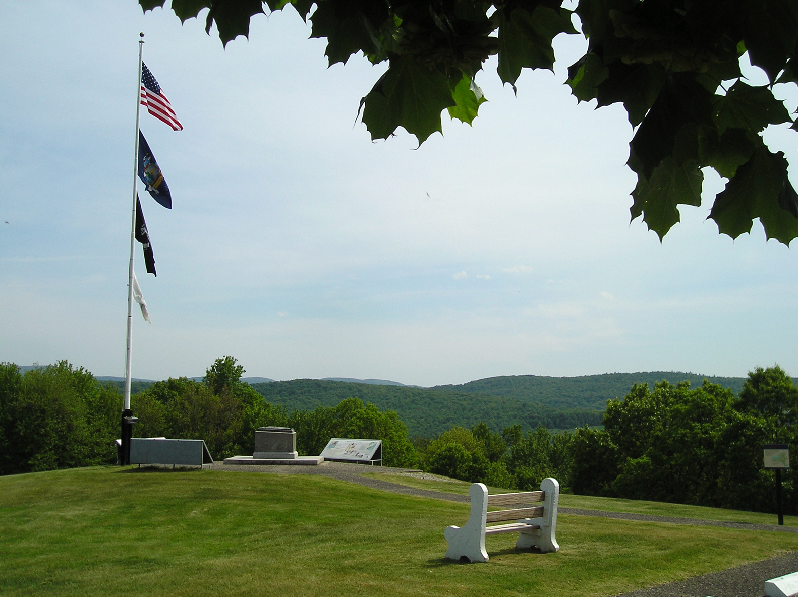 The Bennington Battlefield State Historic Site in Walloomsac as photographed 30 May 2007. It was here on August 16th 1777 that New Hampshire, Vermont and Massachusetts militia under General John Stark defeated British forces under Colonel Friedrich Baum, cutting off supplies to General John Burgoyne as he made his push toward Albany. The site is currently maintained by the New York State Office of Parks, Recreation & Historic Preservation.